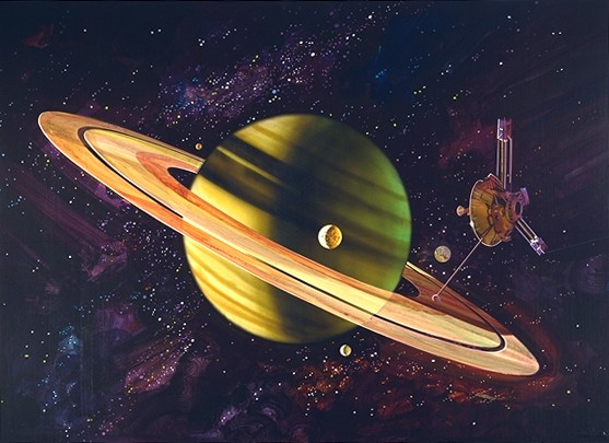 An artist's conception of Pioneer 11 at Saturn.